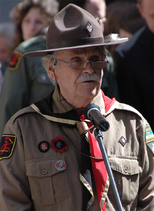 copied directly from the Ukrainian Wikipedia, found at Зображення:Havrylyshyn Bohdan Dmytrovych.png